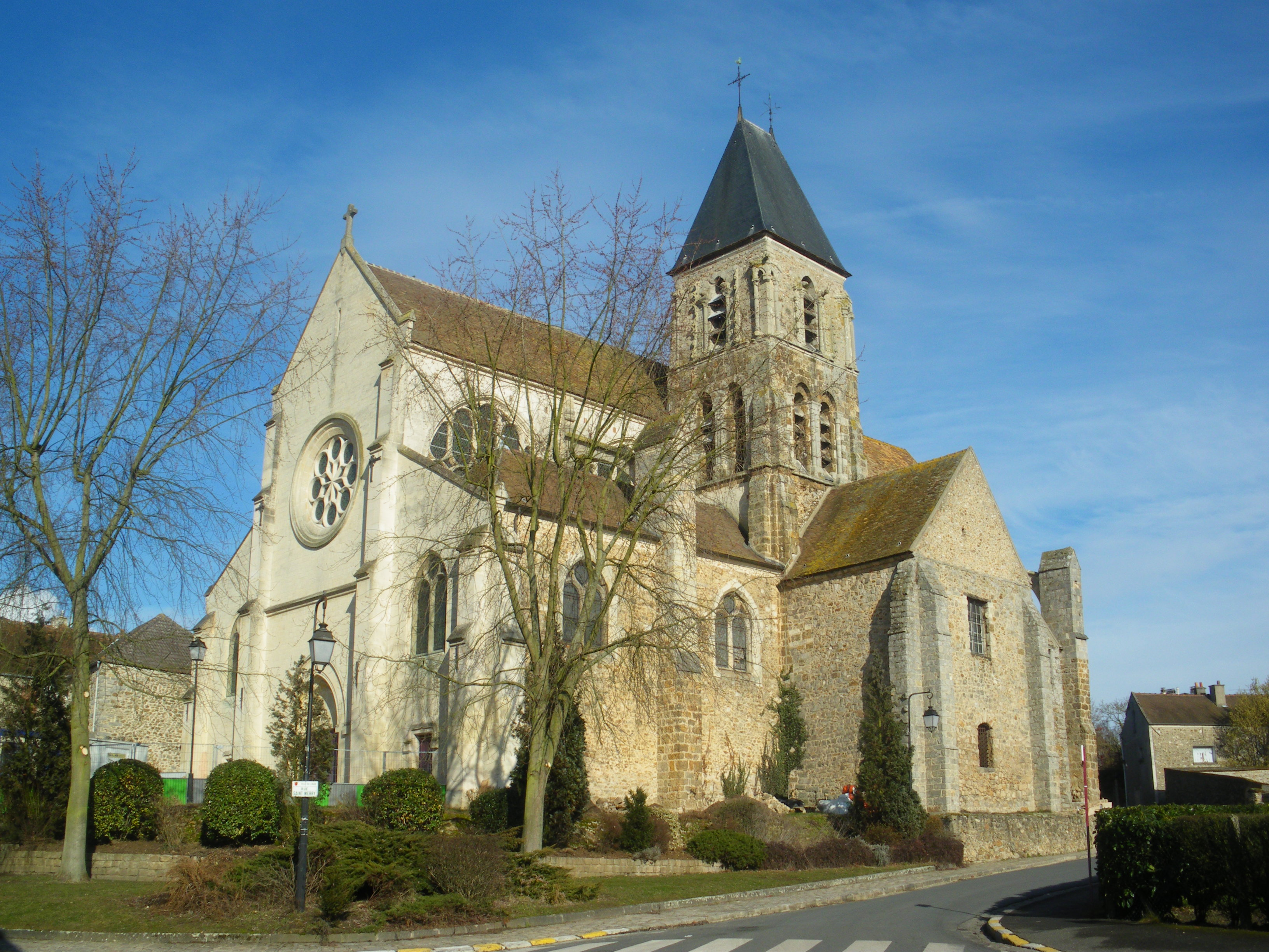 Saint Merry church, Linas, Essonne, France